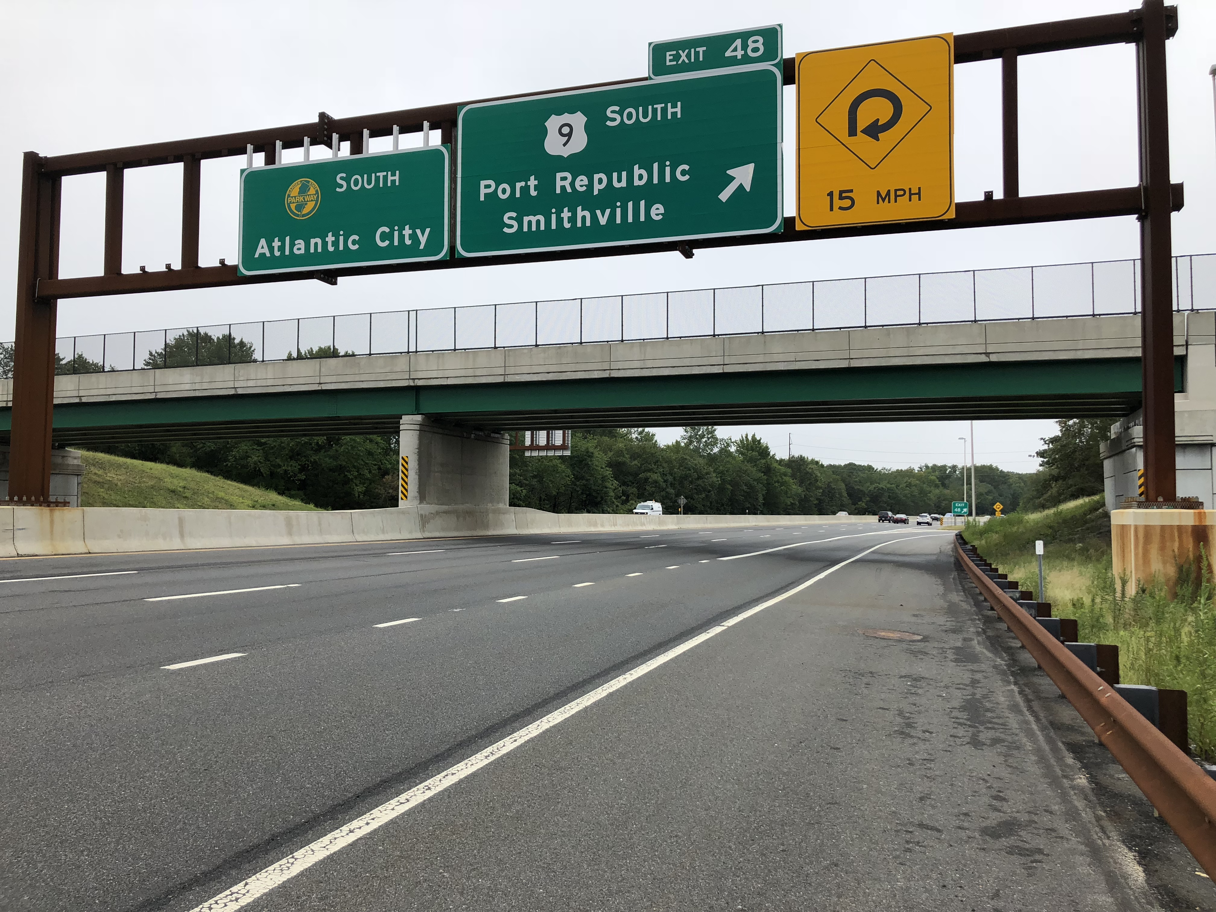 View south along New Jersey State Route 444 (Garden State Parkway) at Exit 48 (U.S. Route 9 SOUTH, Port Republic, Smithville) in Port Republic, Atlantic County, New Jersey